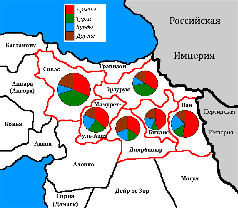 Population of Western Armenia before 1915